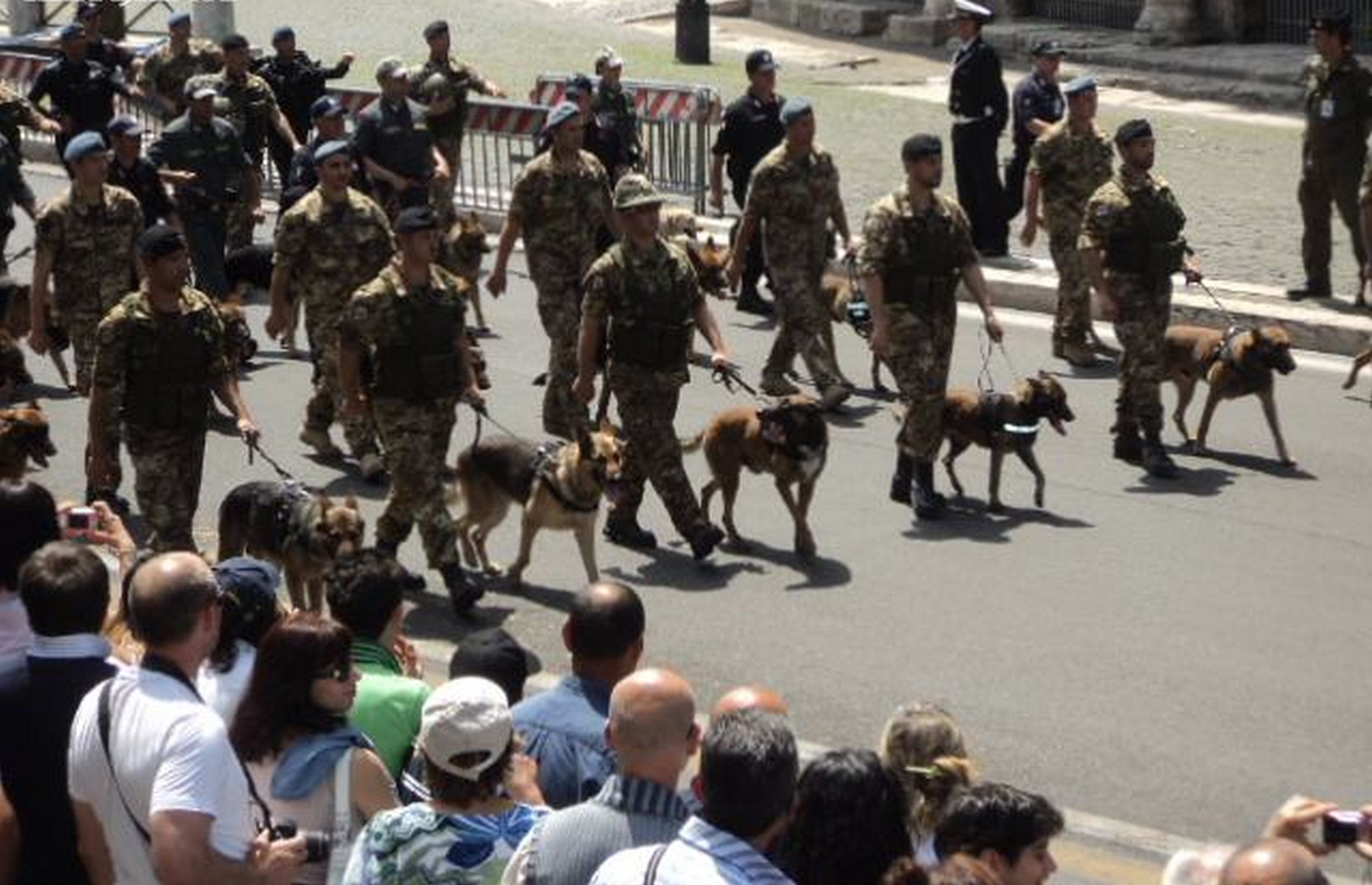 Army parade of Italy 2011